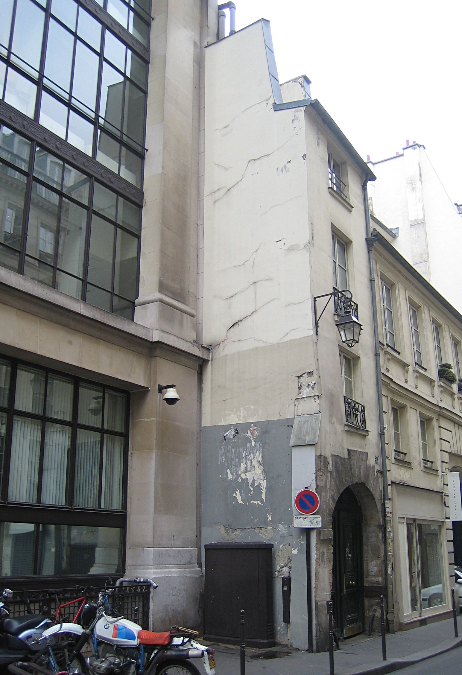 Paris, rue de la Verrerie. Photo taken by Thierry Bezecourt, Feb. 2006.